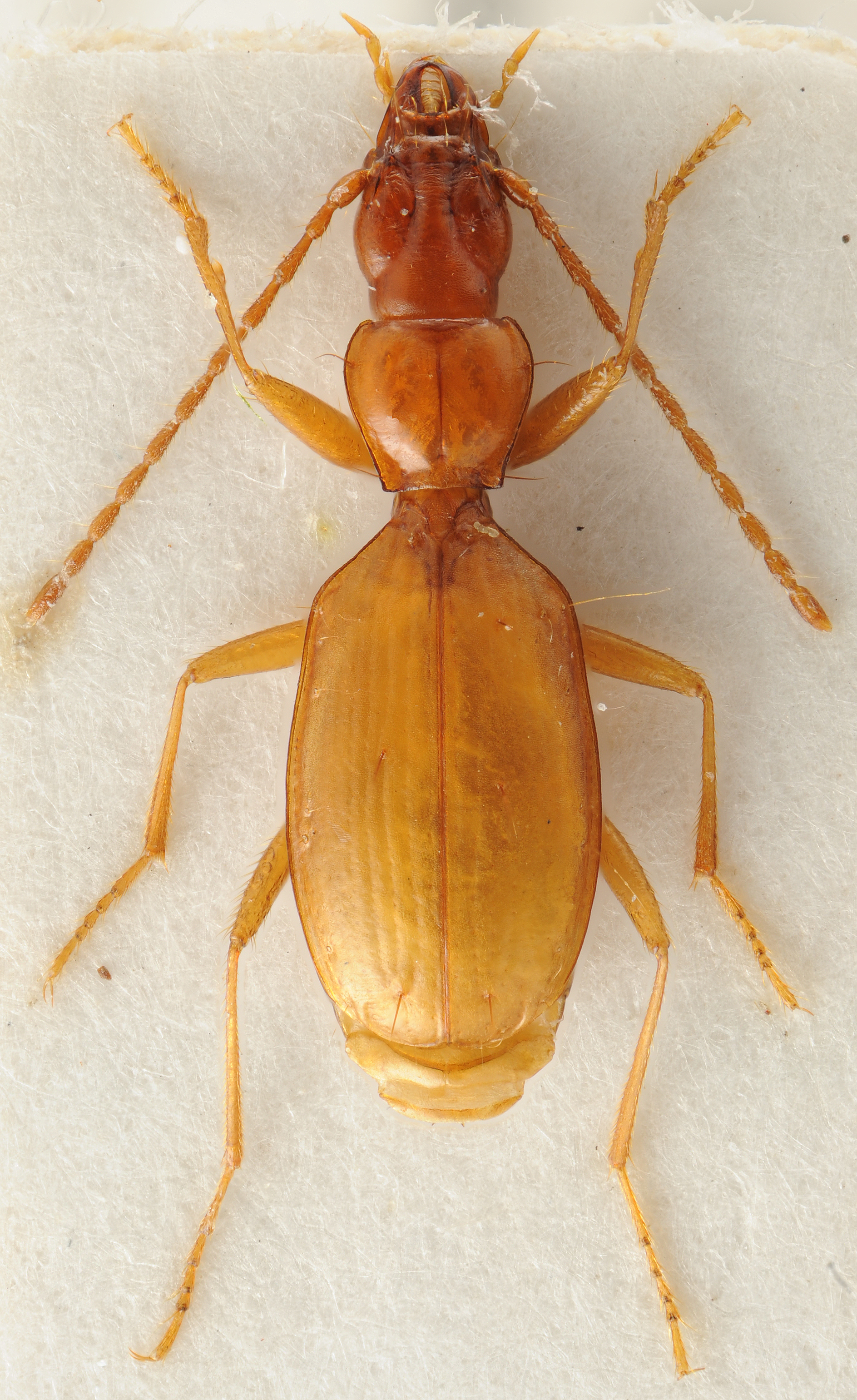 Dorsal habitus of Anophthalmus hitleri - note that this is a species of cave beetle with a very, very unfortunate name.